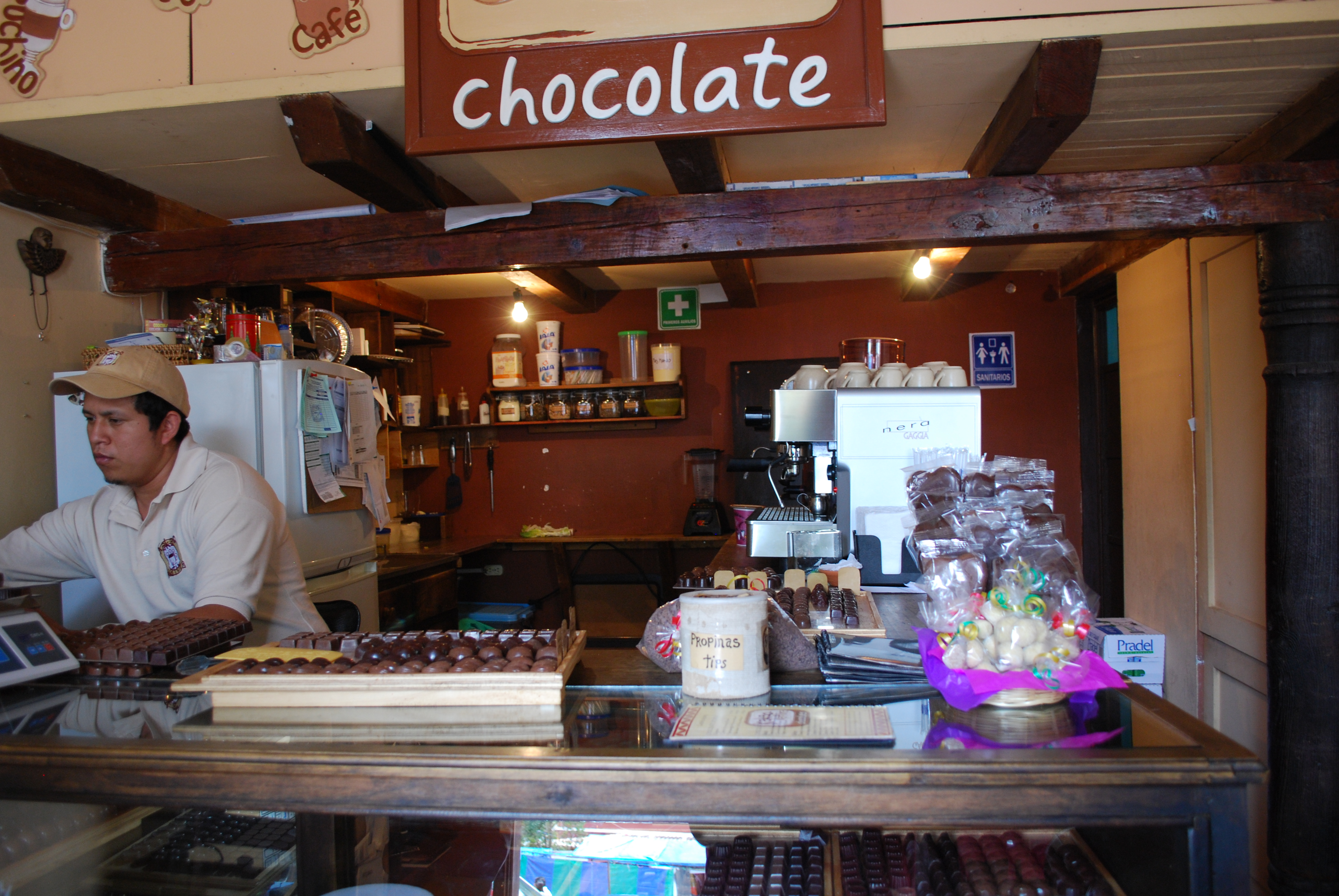 Counter at the Kakao Natura chocolate store in San Cristobal de las Casas, Chiapas, Mexico